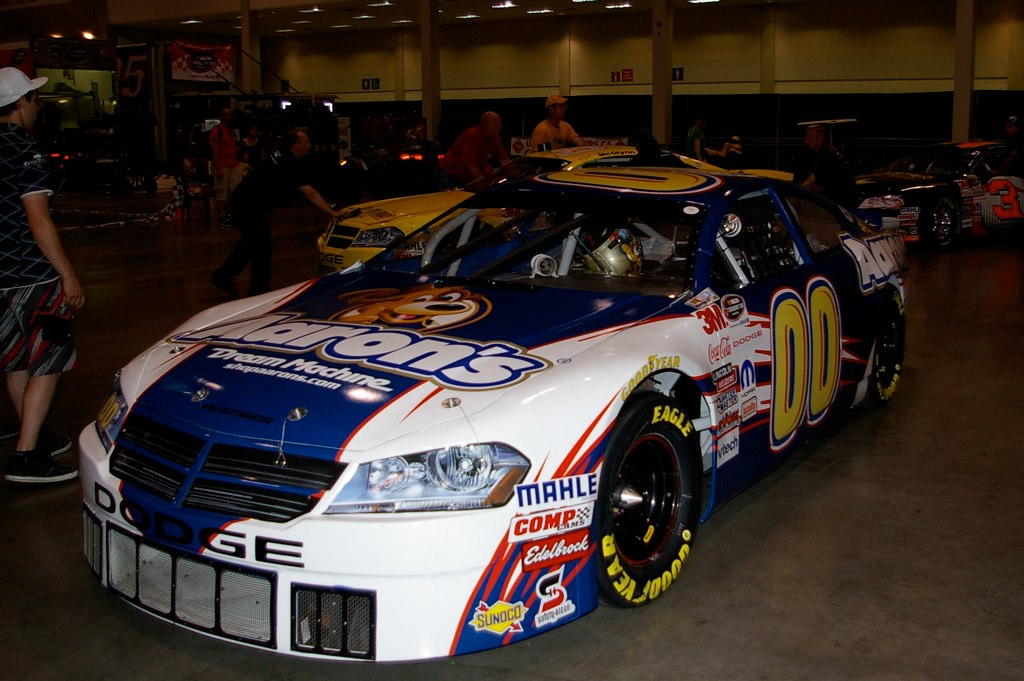 The No. 00 Aaron's Dream Machine Dodge of Canadian politican, journalist, and racing driver Pierre Bourque on display at the 2010 Honda Indy Toronto before the Jumpstart 100 NASCAR Canadian Tire Series race.